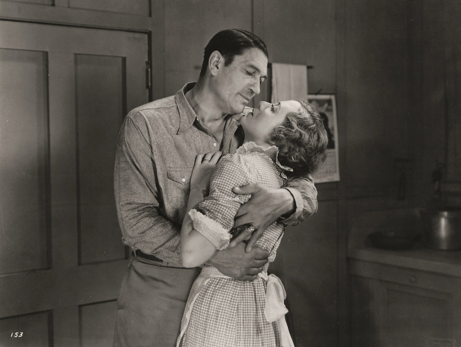 Victor McLaglen and Lois Wilson in Laughing at Life (1933) - publicity still (cropped)